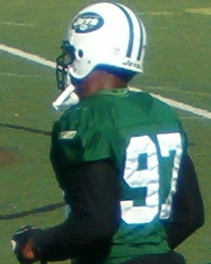 Calvin Pace during practice